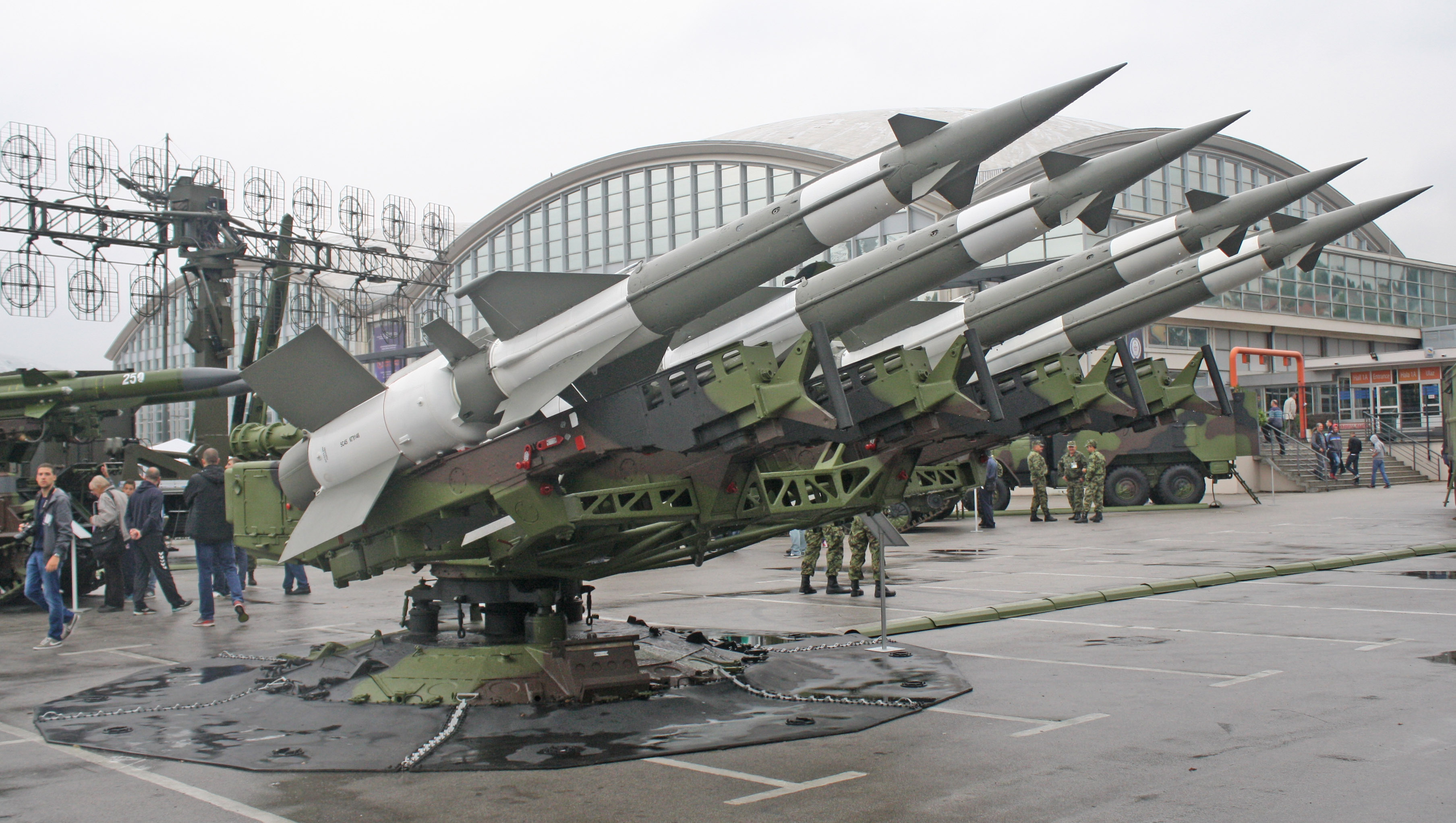 S-125 Neva air defense system from 250th Air Defense Brigade of Serbian Army on display at "Partner 2015" military fair.